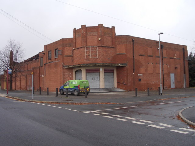 Former Cinema - Acre Road